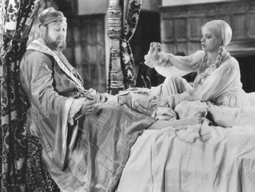 Promotional still from the 1933 film The Private Life of Henry VIII, published in National Board of Review Magazine